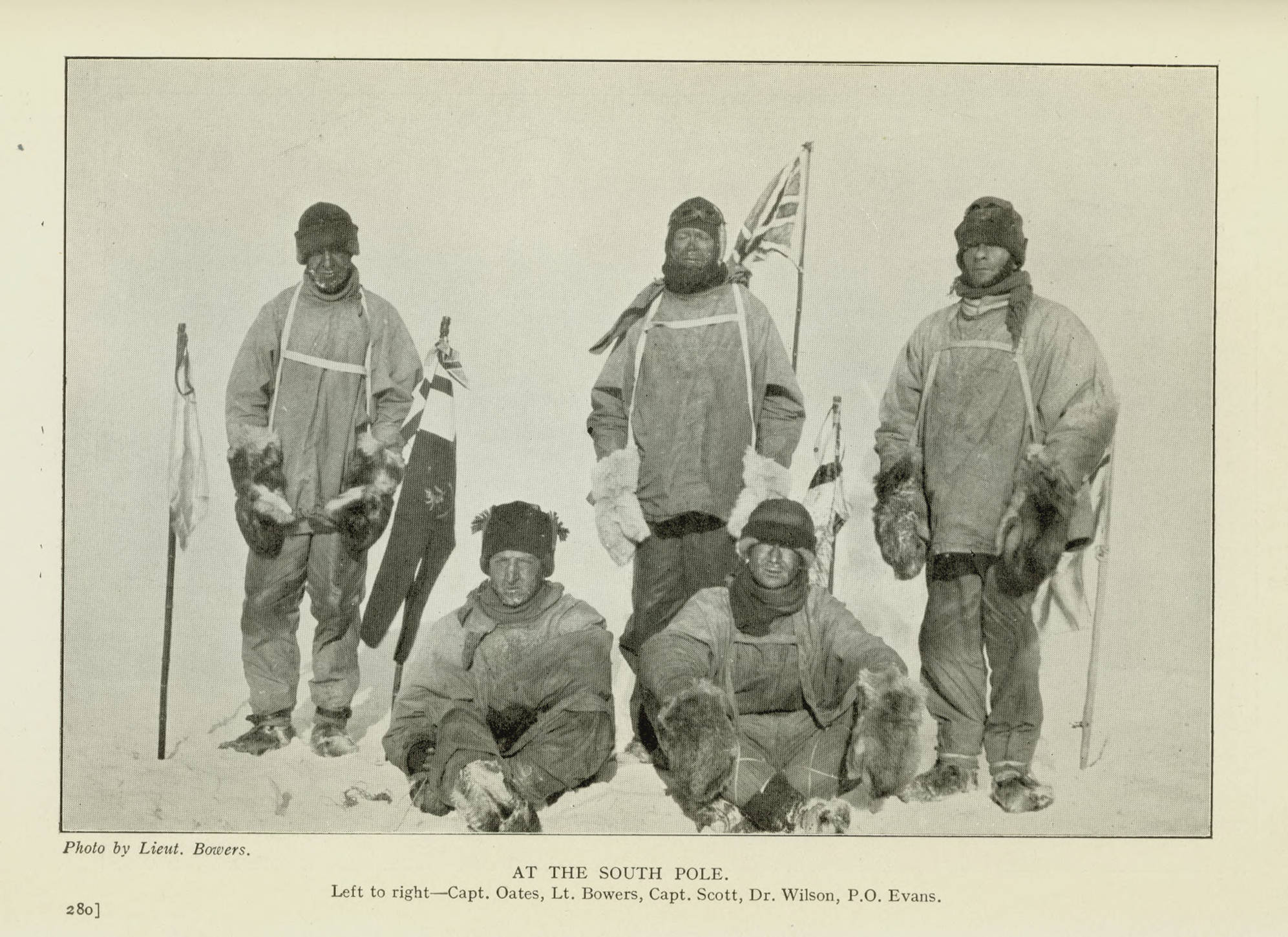 Captain Robert F. Scott's party "at the south pole", 1911 Captain Robert F. Scott's party "at the south pole", 1911. Left to right -- Captain Oates, Lieutenant Bowers, Captain Scott, Dr. Wilson, P.O. Evans. From p. 280 in the book: Herbert G. Pontin. The great white south; or, With Scott in the Antarctic, being an account of experiences with Captain Scott's South Pole Expedition and of the nature life of the Antarctic. New York: R.M. McBride & Company, 1923. Geographic Subject (Continent): Antarctica Photographer: Bowers, H. R. (Henry Robertson), 1883-1912 Legacy Record ID: exbt-m102 Filename: exbt-iceberg-46 Access Conditions: Send requests to address or e-mail given. Phone (213) 821-2366; fax (213) 740-2343. Coverage date: 1911 Part of collection: Library Exhibits Collection Type: images Part of subcollection: Beyond the Tip of the Iceberg: The Discovery and Exploration of Antarctica. Doheny Memorial Library, Fall 2002 Publisher (of the Digital Version): University of Southern California. Libraries Subject (naf Personal Name): Scott, Robert Falcon, 1868-1912; Oates, Lawrence Edward Grace, 1880-1912; Bowers, H. R. (Henry Robertson), 1883-1912; Wilson, Edward, 1872-1912; Evans, Edgar, 1876-1912 Archival file: exbt_Volume11/exbt-iceberg-46.tiff Publisher (of the Original Version): R.M. McBride & Company (New York) Format (aacr2): 1 plate (col.), in book Repository Name: USC Libraries Special Collections Language: English Rights: public domain Repository Address: Doheny Memorial Library, Los Angeles, CA 90089-0189 Date created: 1911 Part of Book: Herbert G. Pontin. The great white south; or, With Scott in the Antarctic, being an account of experiences with Captain Scott's South Pole Expedition and of the nature life of the Antarctic. New York: R.M. McBride & Company, 1923. Format (aat): portraits Call Number: G850 1910.S65 1923 Subject (lcsh): Explorers Repository